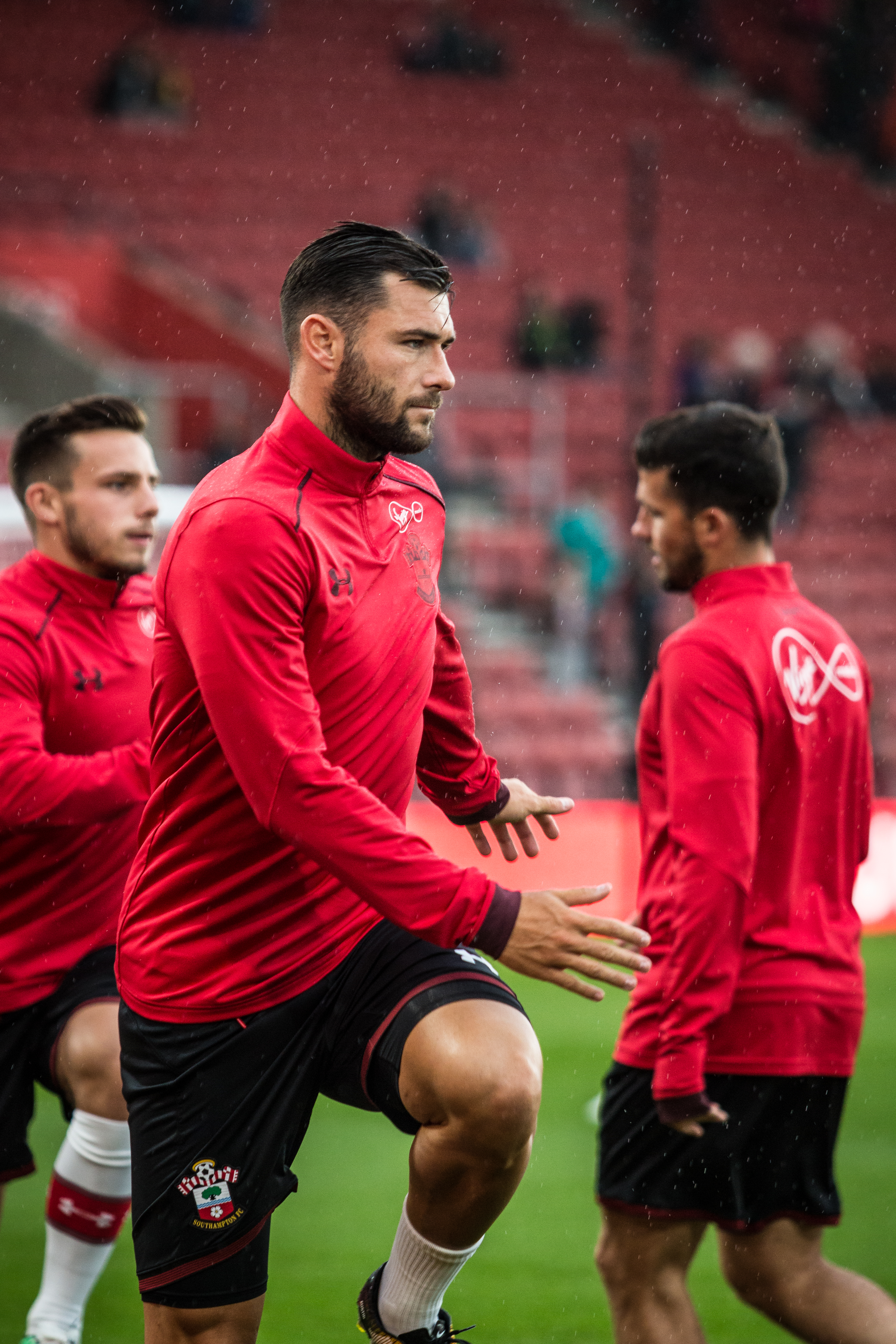 Pre-season friendly Wednesday 2 August 2017 Image by Lewis Commons